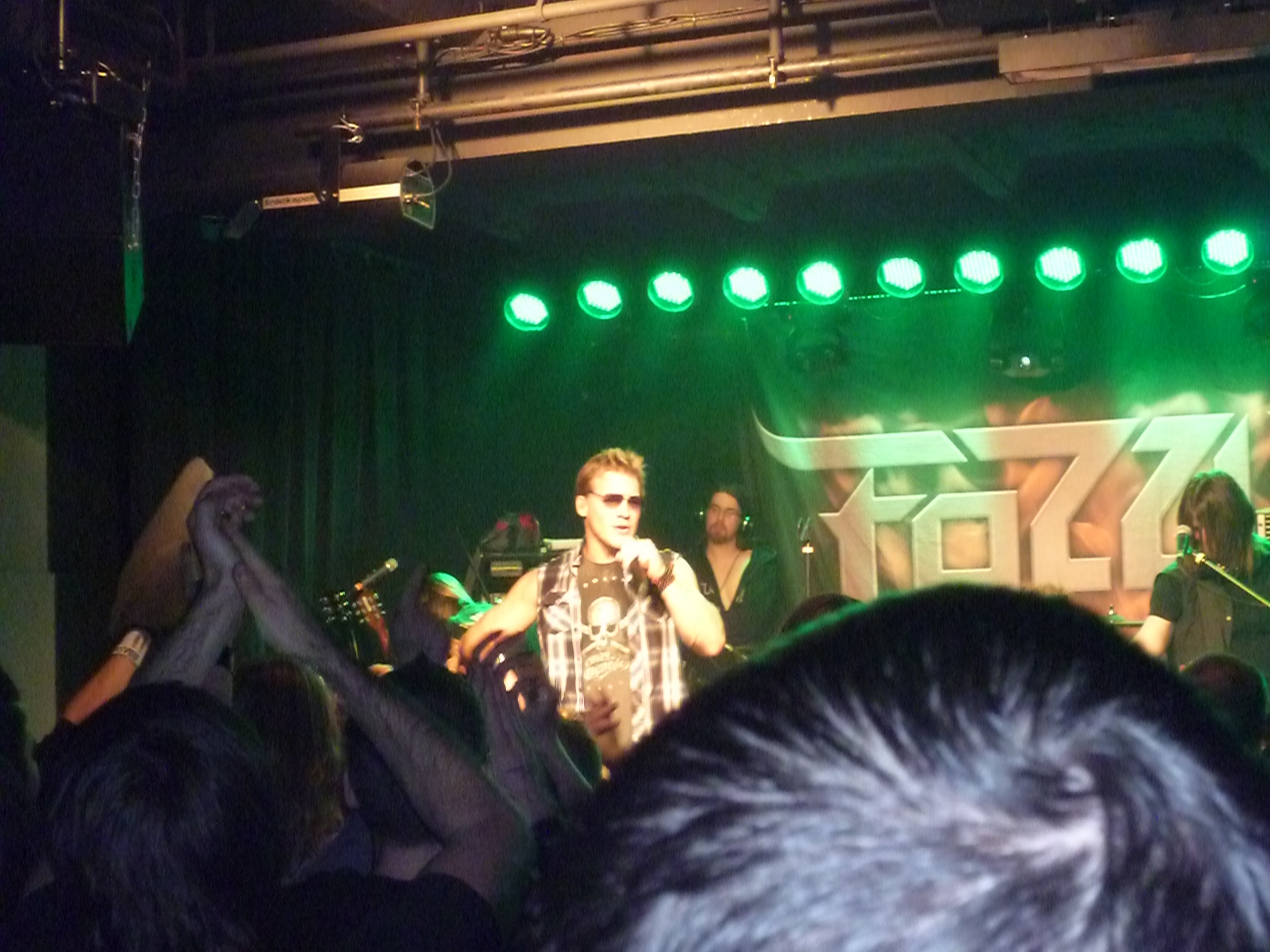 Fozzy at the Kleiner Klub (Saarbrücken)